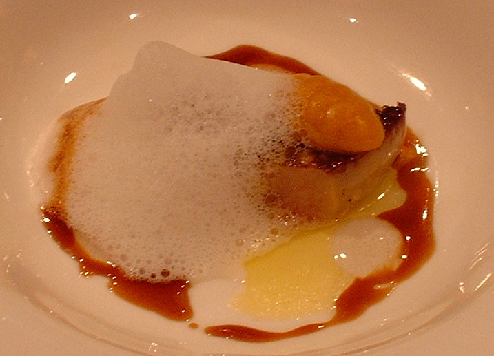 Foie gras with almonds, apricot and Viognier